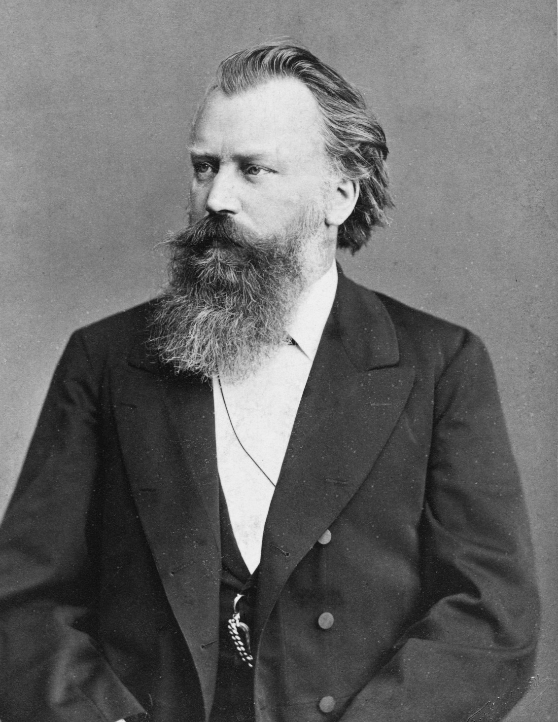 Cabinet card portrait photograph of Johannes Brahms